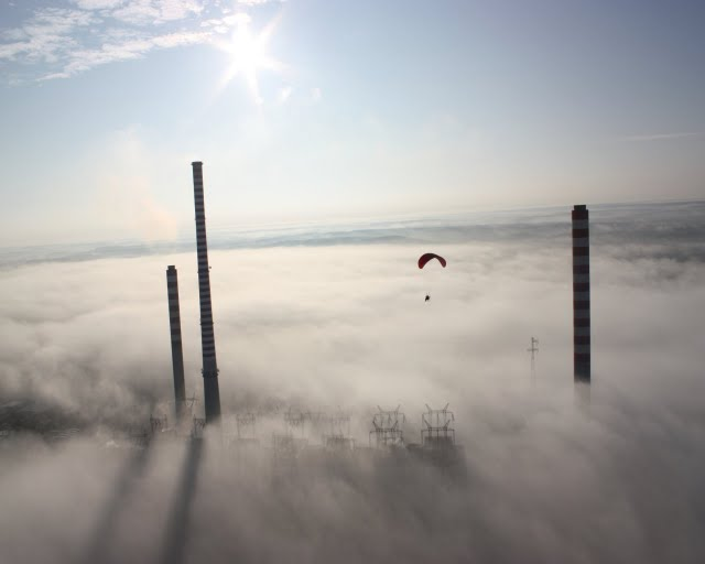 Dolna Odra Power Plant, Poland